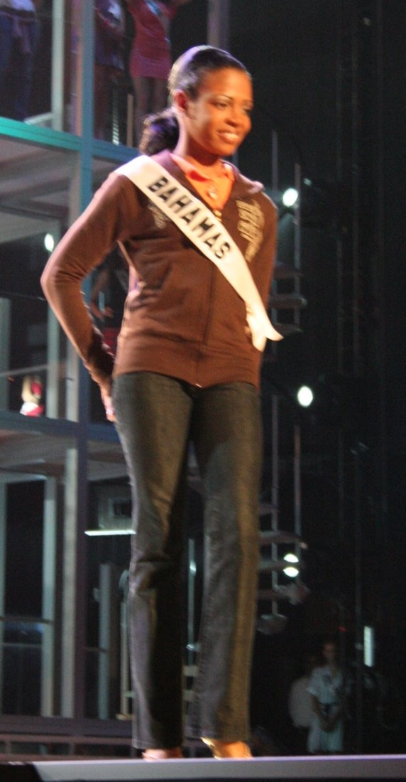 Trinere Lynes, Miss Bahamas 2007, during rehearsals for the Miss Universe 2007 pageant in Mexico City, Mexico